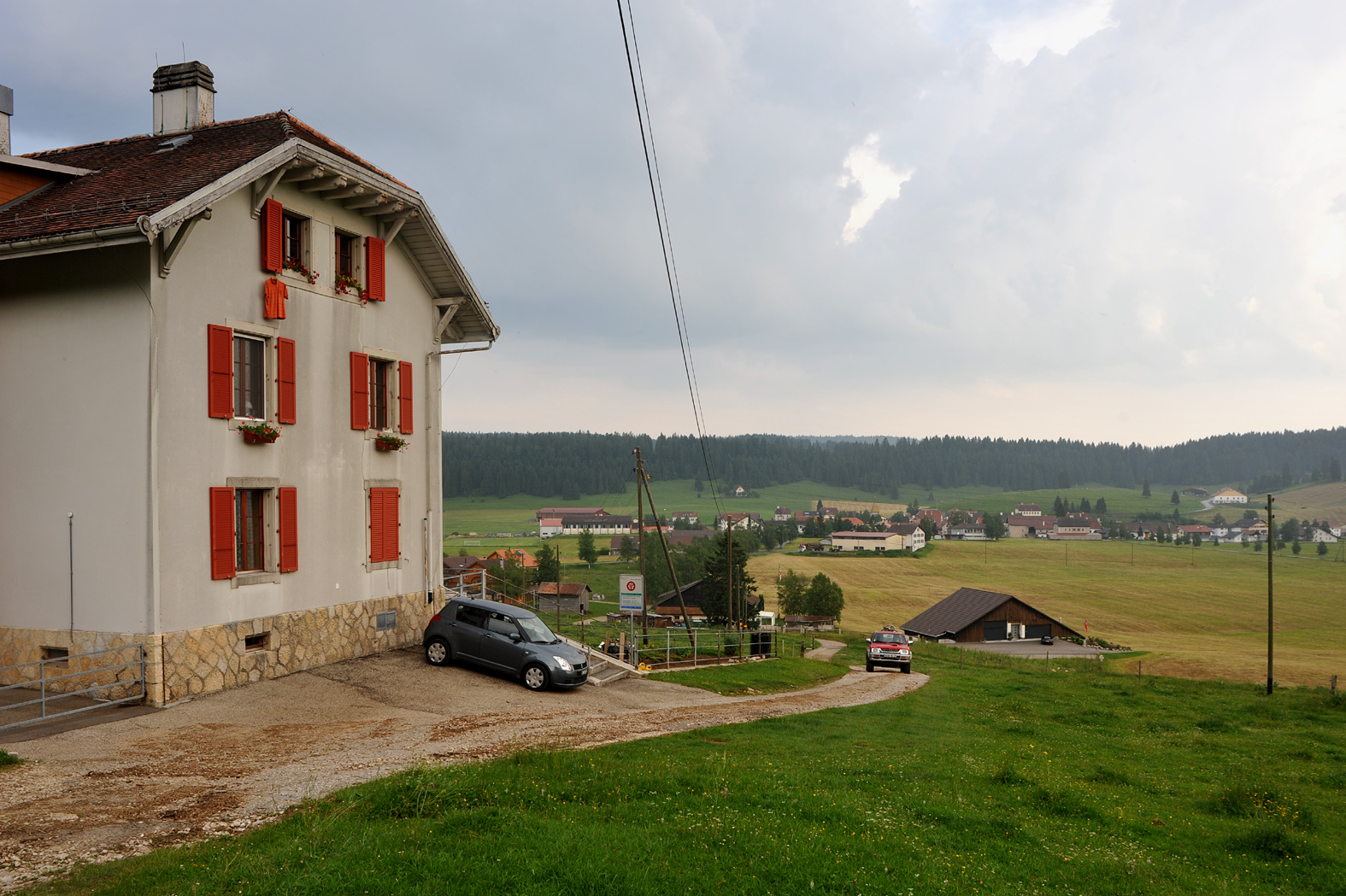 Former custom house in La Brévine; Neuchâtel, Switzerland. At this building Michel Hollard during his first secret border crossing 1941 faced up to the Swiss authorities. View to south to La Brévine.